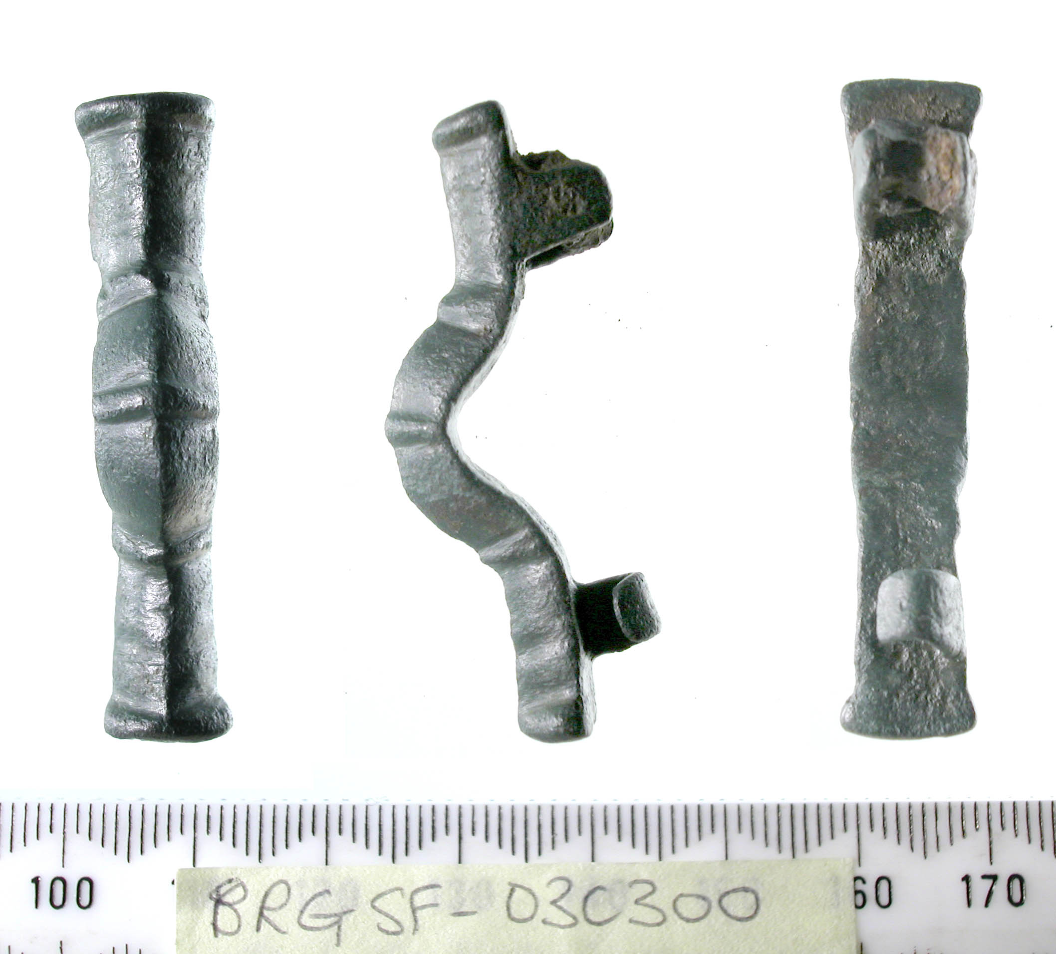 A complete copper-alloy middle Anglo-Saxon ansate brooch in very good condition, measuring 47mm in length and 8mm in width. This brooch is rectangular in plan and has a semi-circular cross-section. The bow has a central rounded projecting arch and the terminals flare outwards slightly towards their ends. The front face of this brooch is decorated with a central longitudinal ridge, running across this ridge there are transverse mouldings, prominent ones occur at the end of both of the terminals, at either side of the central arch and across the centre of the arch itself. Less prominent transverse mouldings also occur inbetween these at regular intervals along the length of the bow and across the terminals. On the back face behind the terminals a catch plate can be seen at one end and a single pin bar lug at the other. This pin lug has corroded iron within it, presumably from the iron pin. A similar ansate brooch has been found at Ipswich, Suffolk also dating to the 8th or 9th century (West 1998, 216, fig 98).